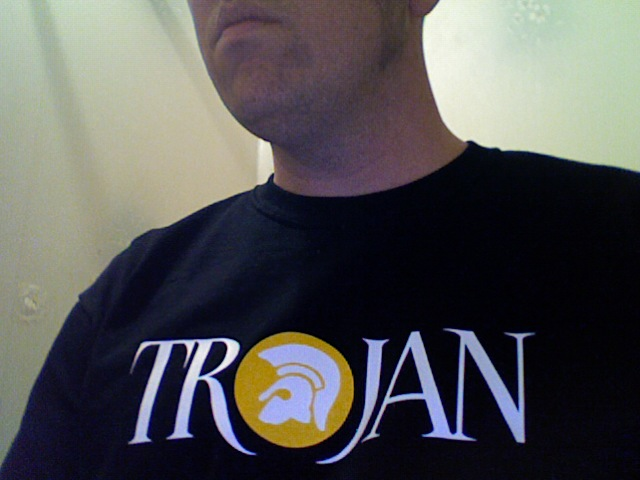 T-shirt with «Trojan Records» logo